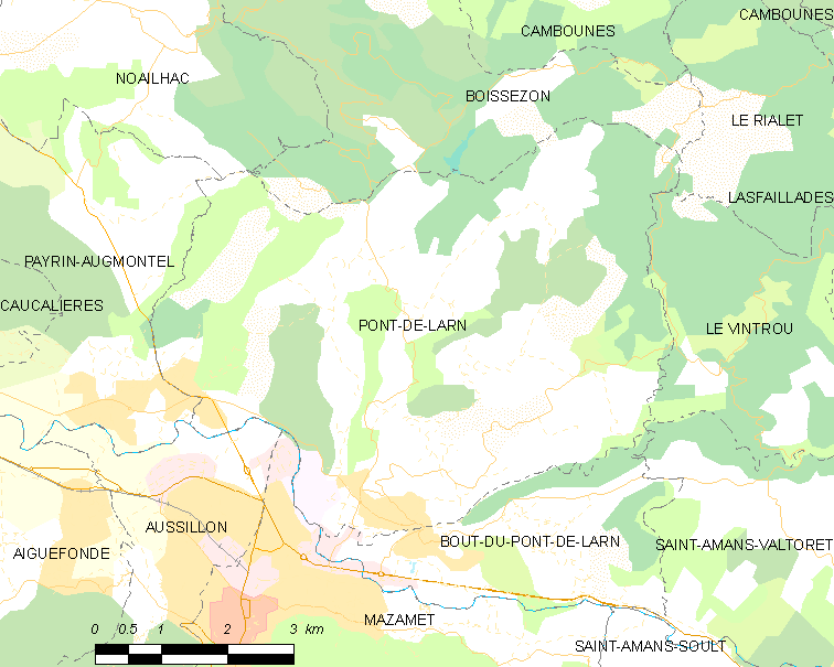 Map commune FR insee code 81209.png - Pont-de-Larn